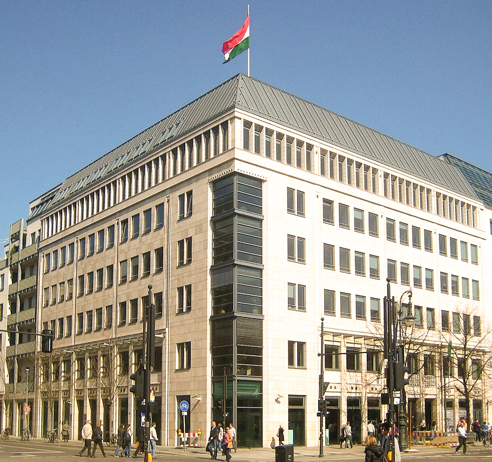 Embassy of Hungary, Unter den Linden 76, corner of Wilhelmstraße (left), in Berlin-Mitte. The building was constructed 1999 to 2001 to a design by the architect Ádám Sylvester.